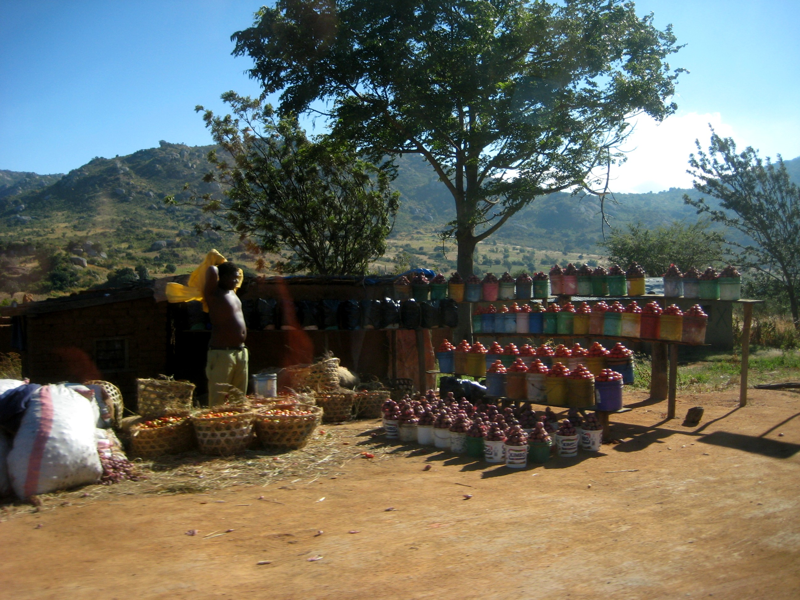 All along the road from Iringa to Njombe. Apart from tomatoes, Njombe region is full of onion plantations. Here a stand where both are sold. Instead, the black plastic contain coal. Usually all fruit and vegetable are sold in the streets directly by farmers. This is an image of food from Tanzania